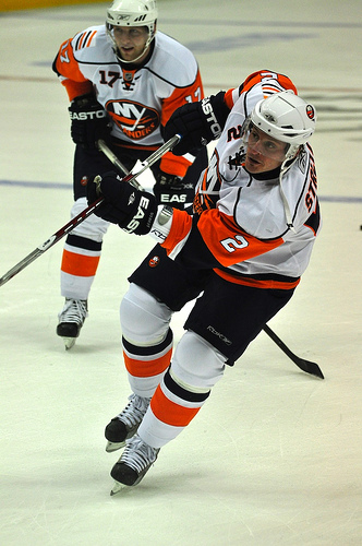 Mark Streit (#2), playing for the New York Islanders. In the background is Thomas Pöck (#17).